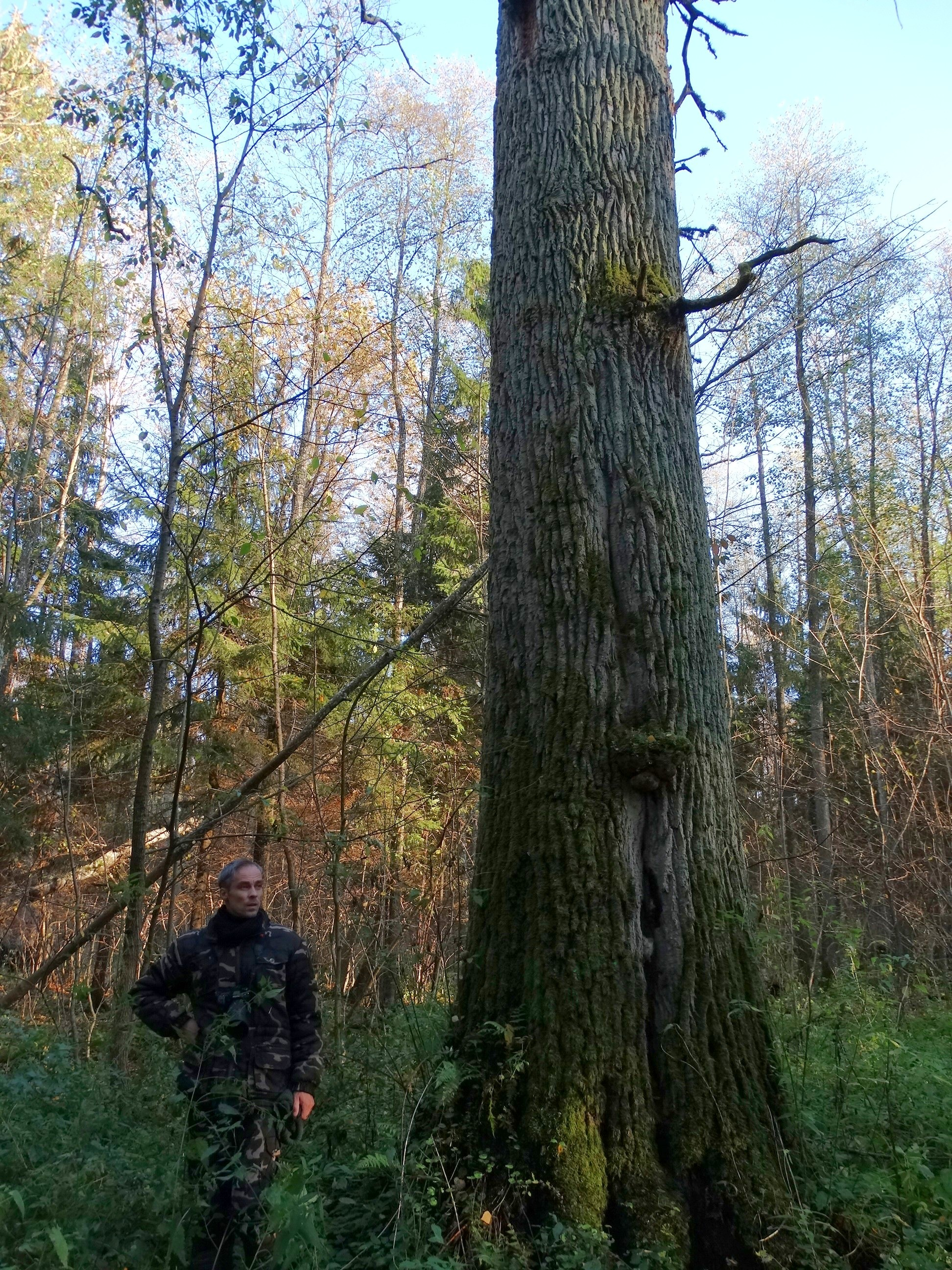 Bukta Oak, Marijampolė municipality, Lithuania